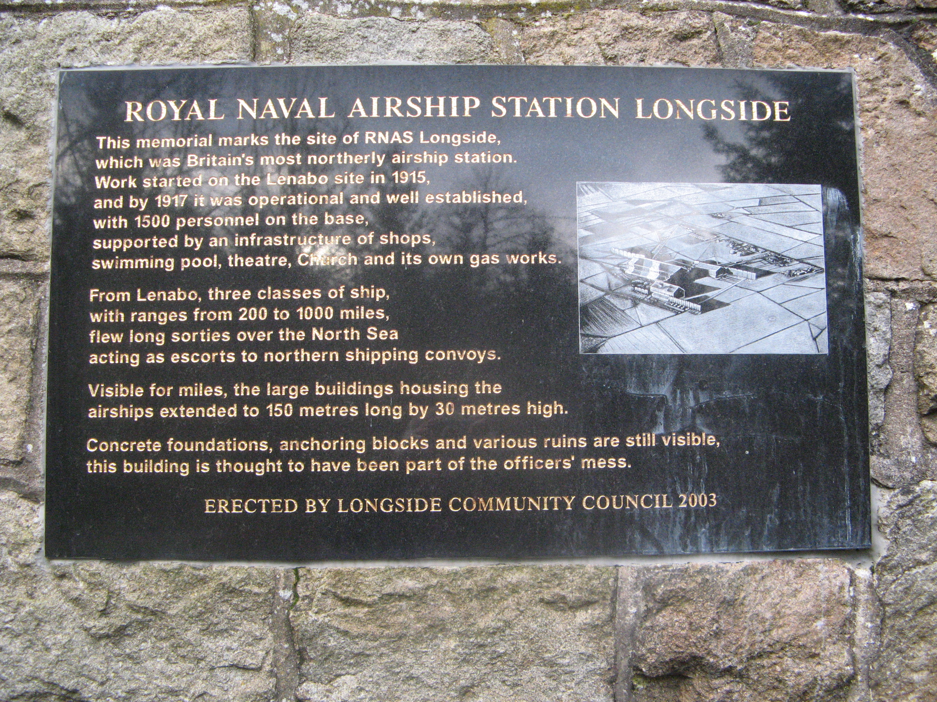 Plaque at former RNAS Lenabo